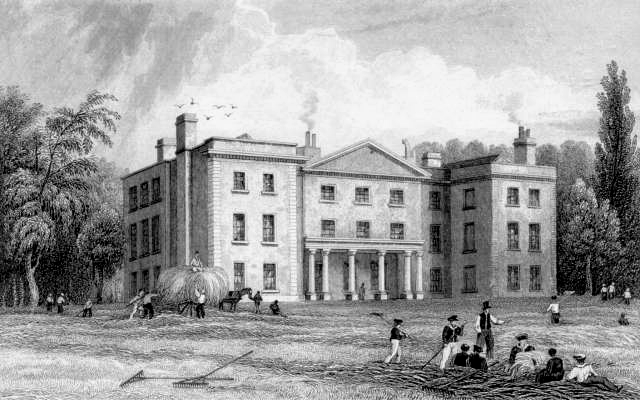 Mount Radford House in the parish of St Leonards, Exeter, Devon. Demolished 1902. After 1828 used as a school. 1830/2 engraving titled: Mount Radford College, Exeter. Engraving by W. Taylor after drawing by W. H. Bartlett. Steel line engraving 96 x 153, published by Fisher, Son & Co., London, 1830/2 & reissued by P. Jackson, London & Paris, 1849